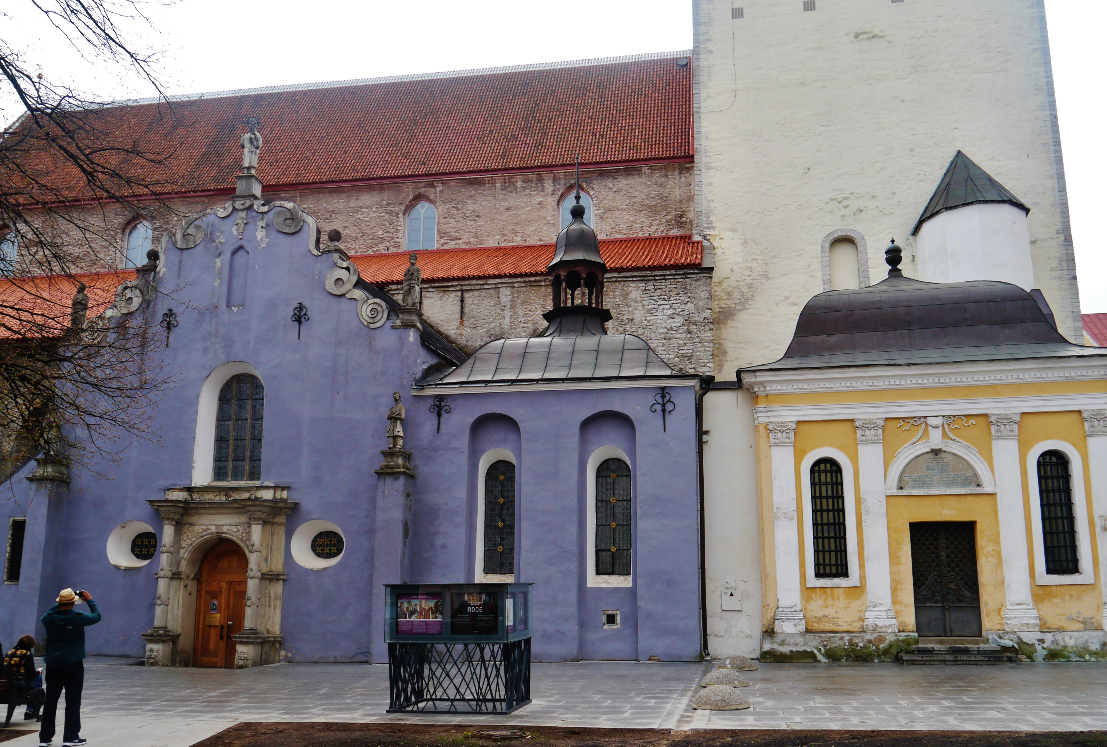 Portal of St. Nicholas' Church, Tallinn, Estonia